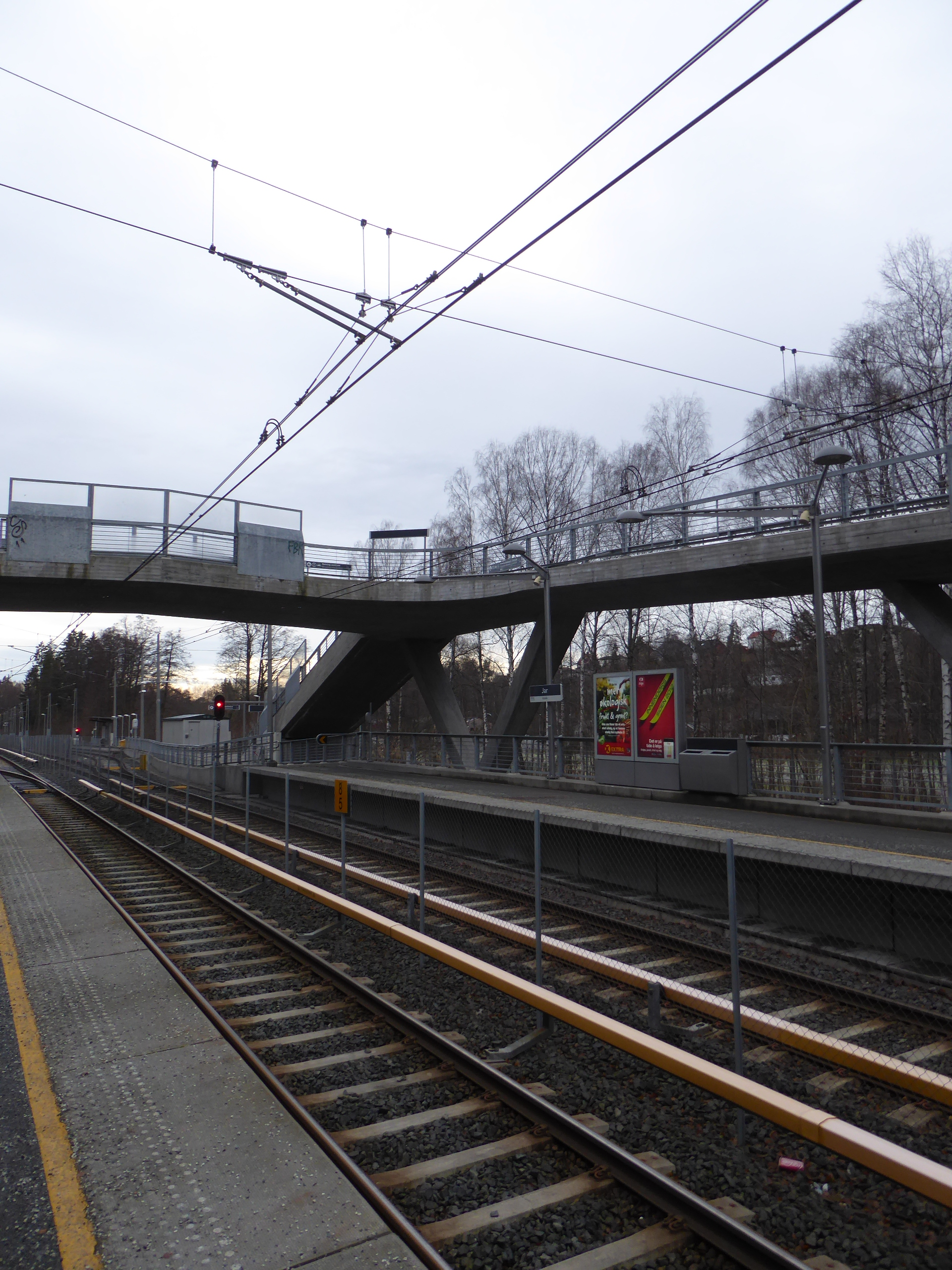 Overhead lines for trams and third rails for T-bane at Jar Station (Jar stasjon) on Kolsåsbanen in Oslo.